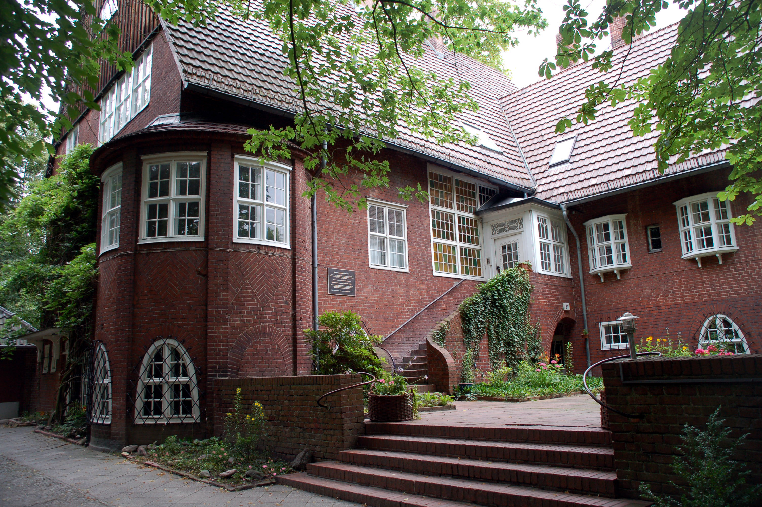 image: Martin-Niemoeller-House.Berlin-Dahlem.2007 Image: image produced by Berkan, 2007, picture shows “Martin-Niemoeller-House”, Berlin-Dahlem,Germany